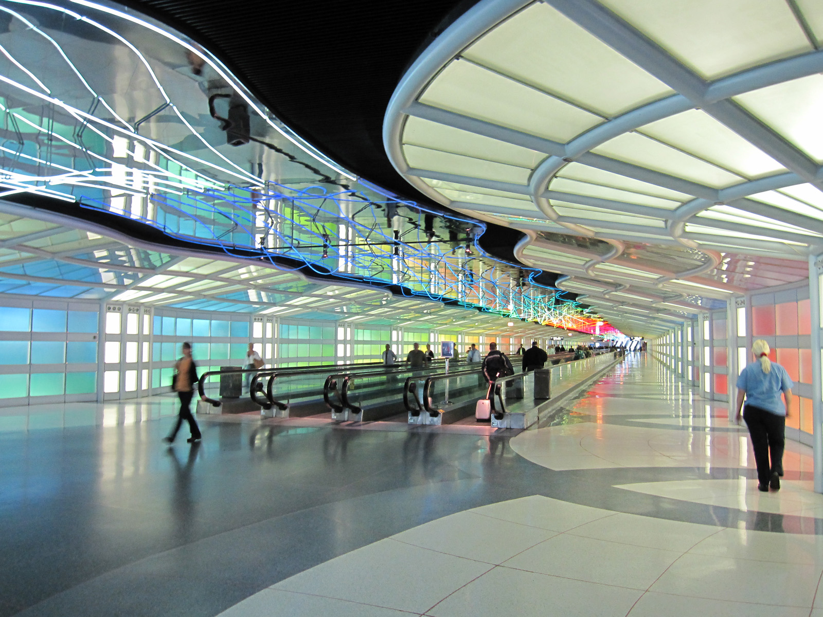 I am transiting through Chicago O'Hare Airport on United Airlines, on my way from Toronto to Los Angeles. This corridor, connecting Concourses B and C that make up the main hub for the pre-merger United Airlines, was opened in 1987 along with the two concourses. It is best known for the ever-changing lighting effects as seen here; in fact, Sean "Puffy" Combs actually shot a music video in here sometime in the 1990s. After the Continental merger, Chicago O'Hare remains the home hub for post-merger United Airlines, even though Continental's Houston Intercontinental hub is actually larger. I arrived at O'Hare as a domestic passenger, as Toronto Pearson Airport, like most major Canadian airports, has US immigration and customs on site to pre-screen US-bound passengers.